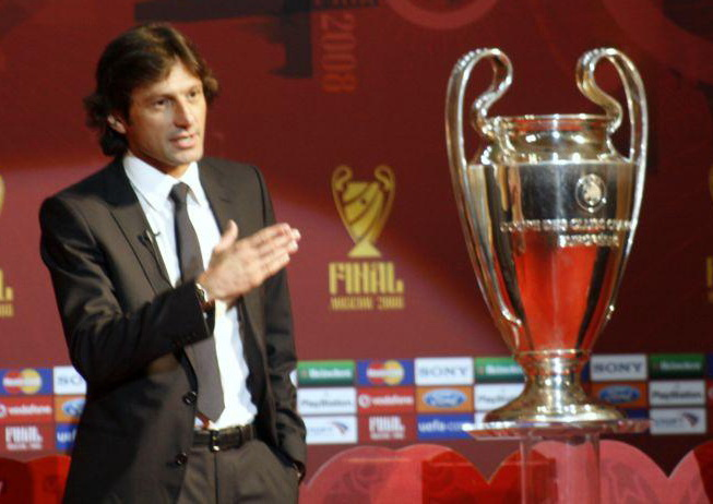 Leonardo Nascimento de Araújo